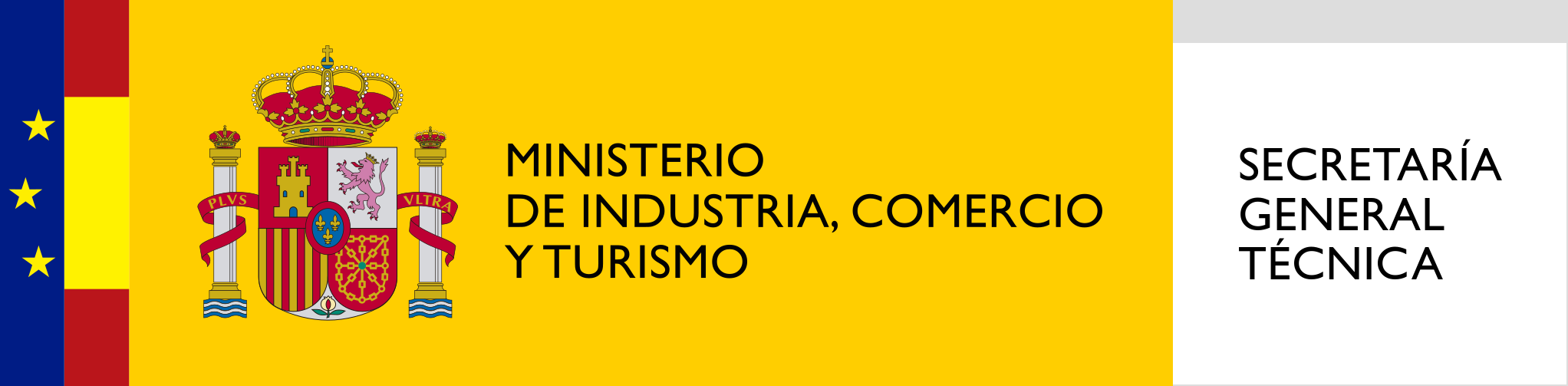 Logo of the Technical General Secretariat of the Ministry of Industry, Trade and Tourism